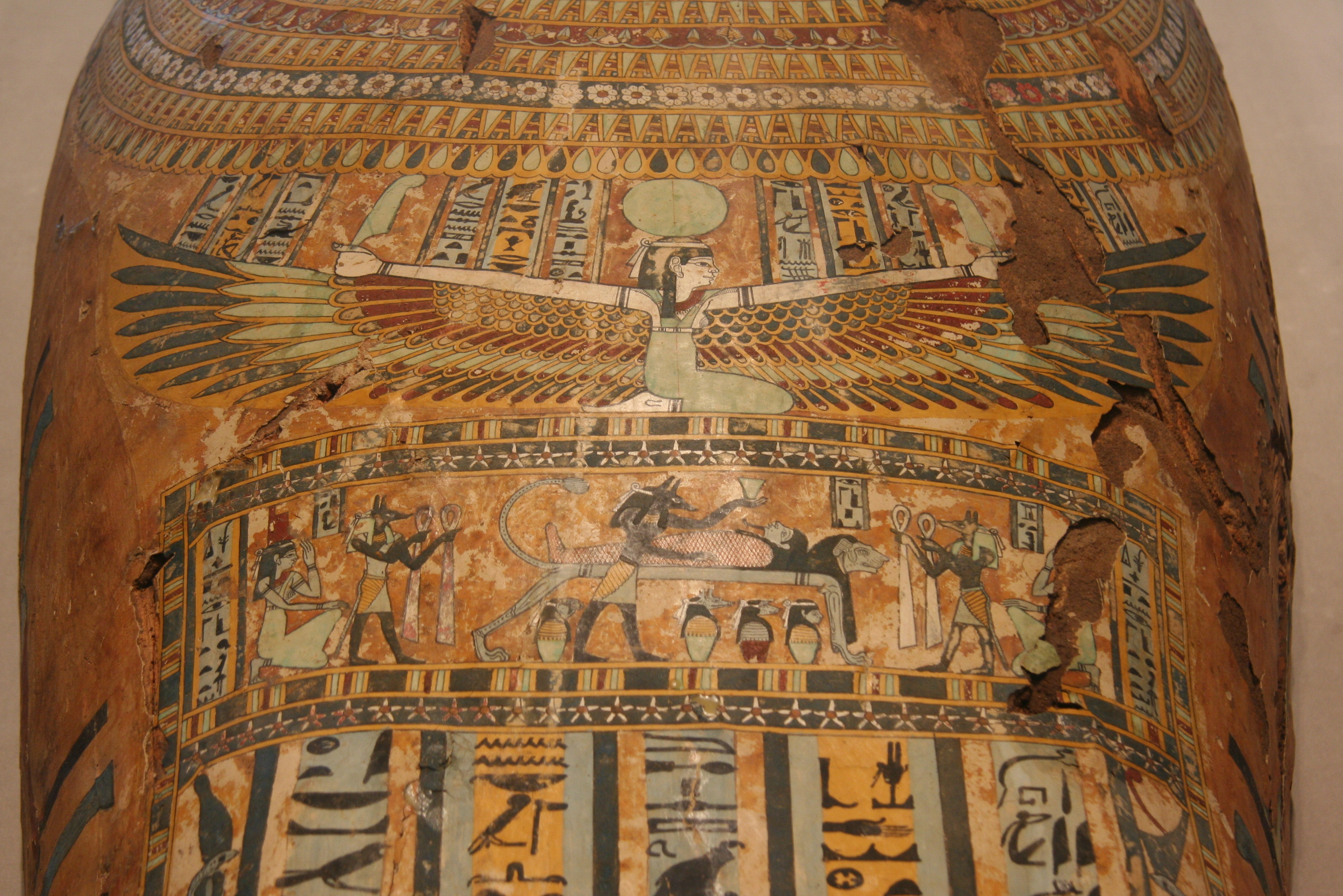 Mummy coffin of Pedusiri, detail of the chest area, including the goddess Nut with outstreched wings, in plastered, polychromed, and gilded wood, Egyptian late dynastic or early Greco-Roman period, circa 500 - 25 B.C.E. Milwaukee Art Museum, Wisconsin